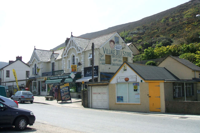 Village Store and Post Office, Porthtowan